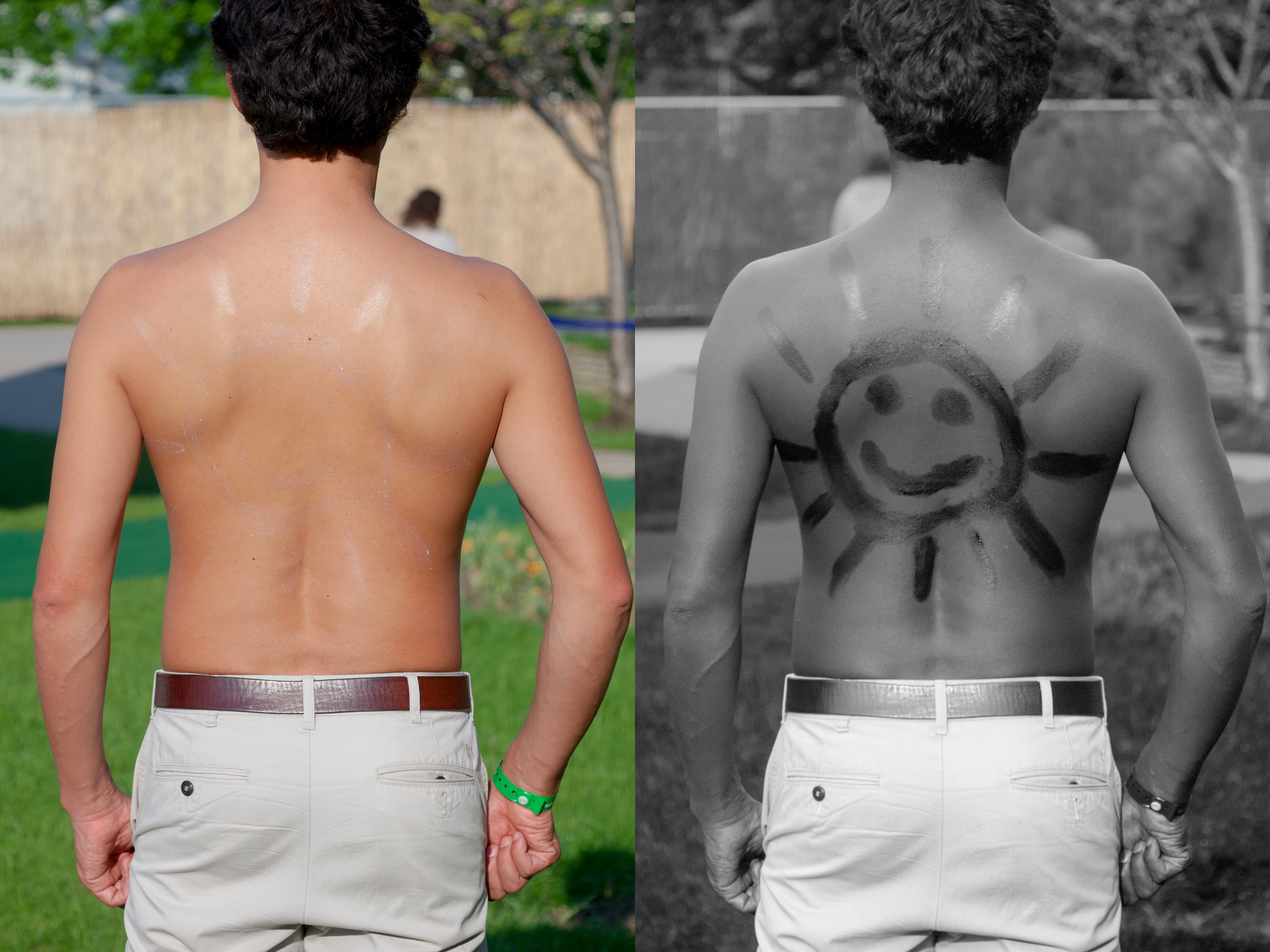 Sunscreen SPF 30 applied to my back and photographed using normal and UV photography at the Cheltenham Science festival. Camera: converted Nikon D40 with 50mm enlarger lens. Exposure 1/500s for normal light, 1/5s for UV.